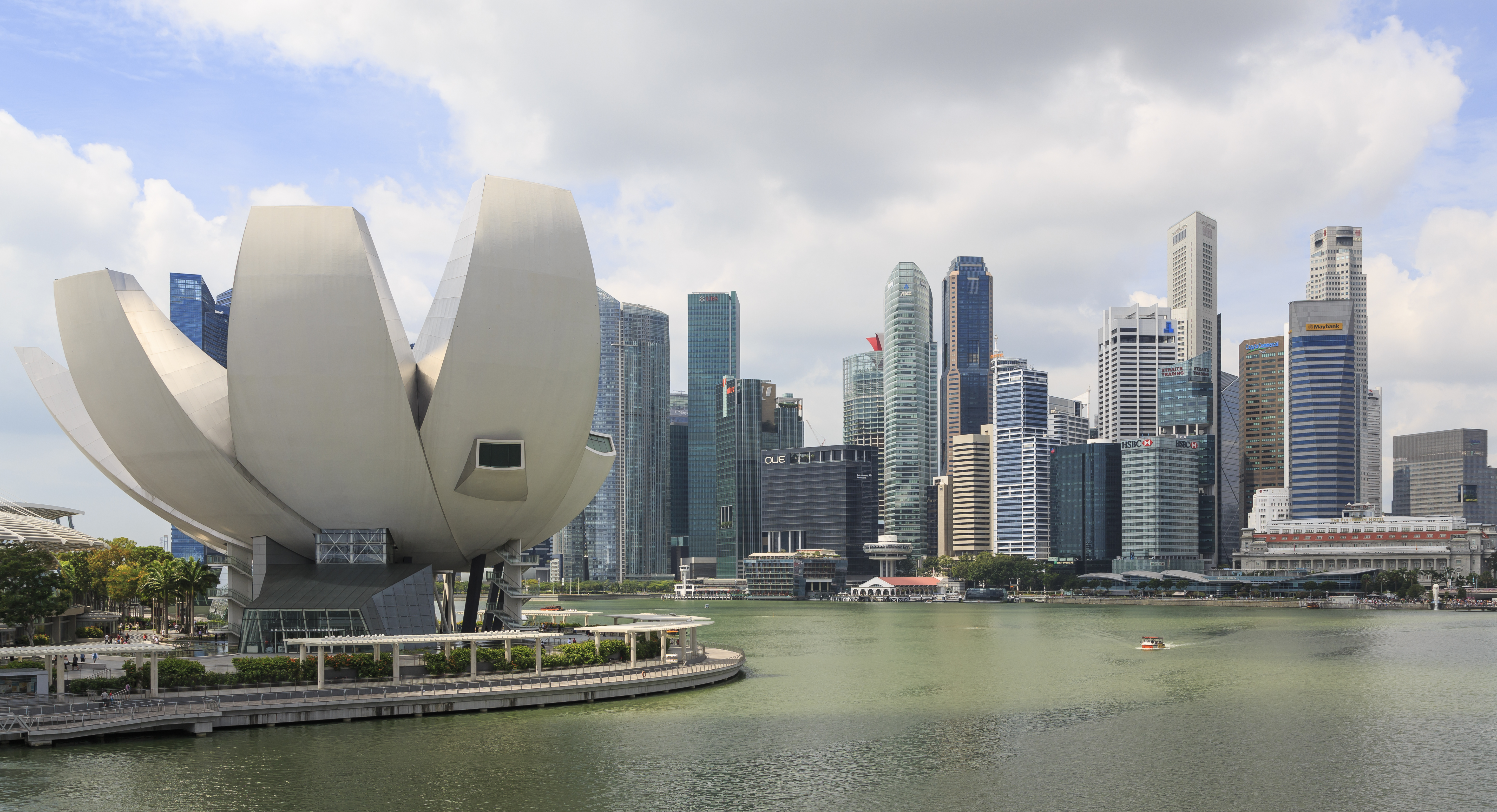 Singapore: Marina Bay with ArtScience Museum and Skyline seen from Helix Bridge